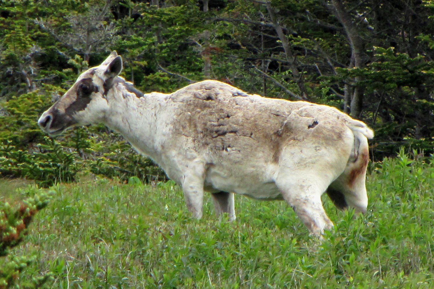 Migratory Woodland Caribou (Rangifer tarandus caribou or Rangifer tarandus terraenovae) female in spring near Cape St. Mary's, Newfoundland and Labrador, Canada